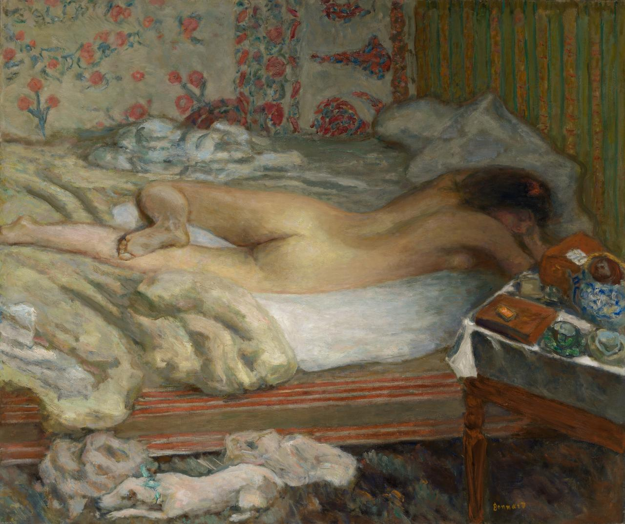 Painting by Pierre Bonnard